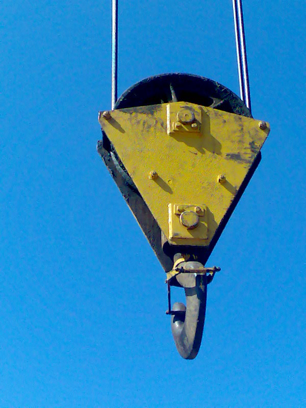 Hook on crane at Princess Elizabeth Graving Dock, East London, South Africa.